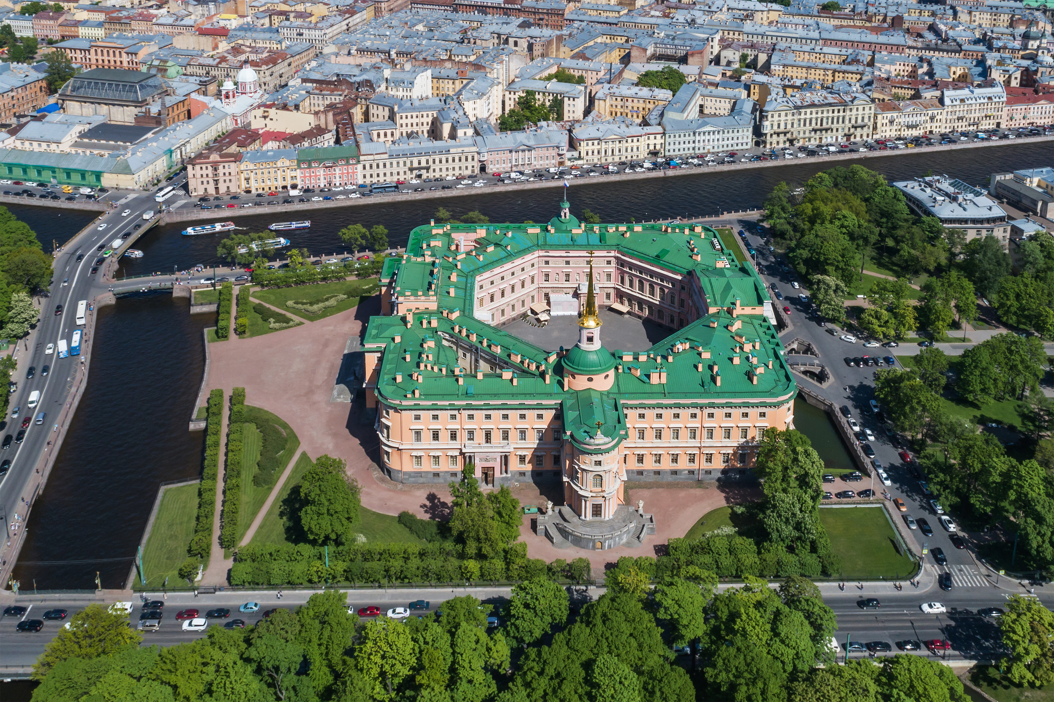 Aerial photo of St. Michael Castle in Saint Petersburg (Russia).